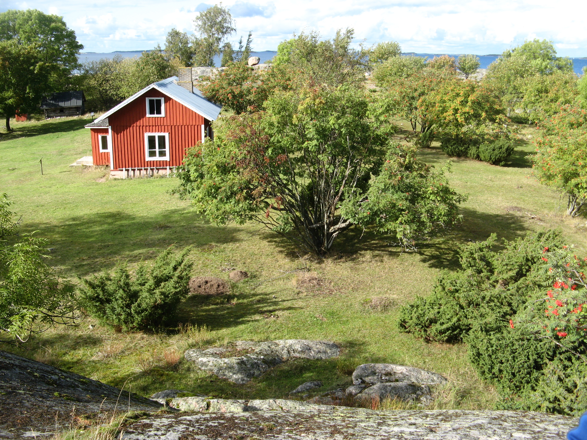 Home of Kråkskär inhabitants, built in the beginning of the century, inhabited until 1956, restored 2004.